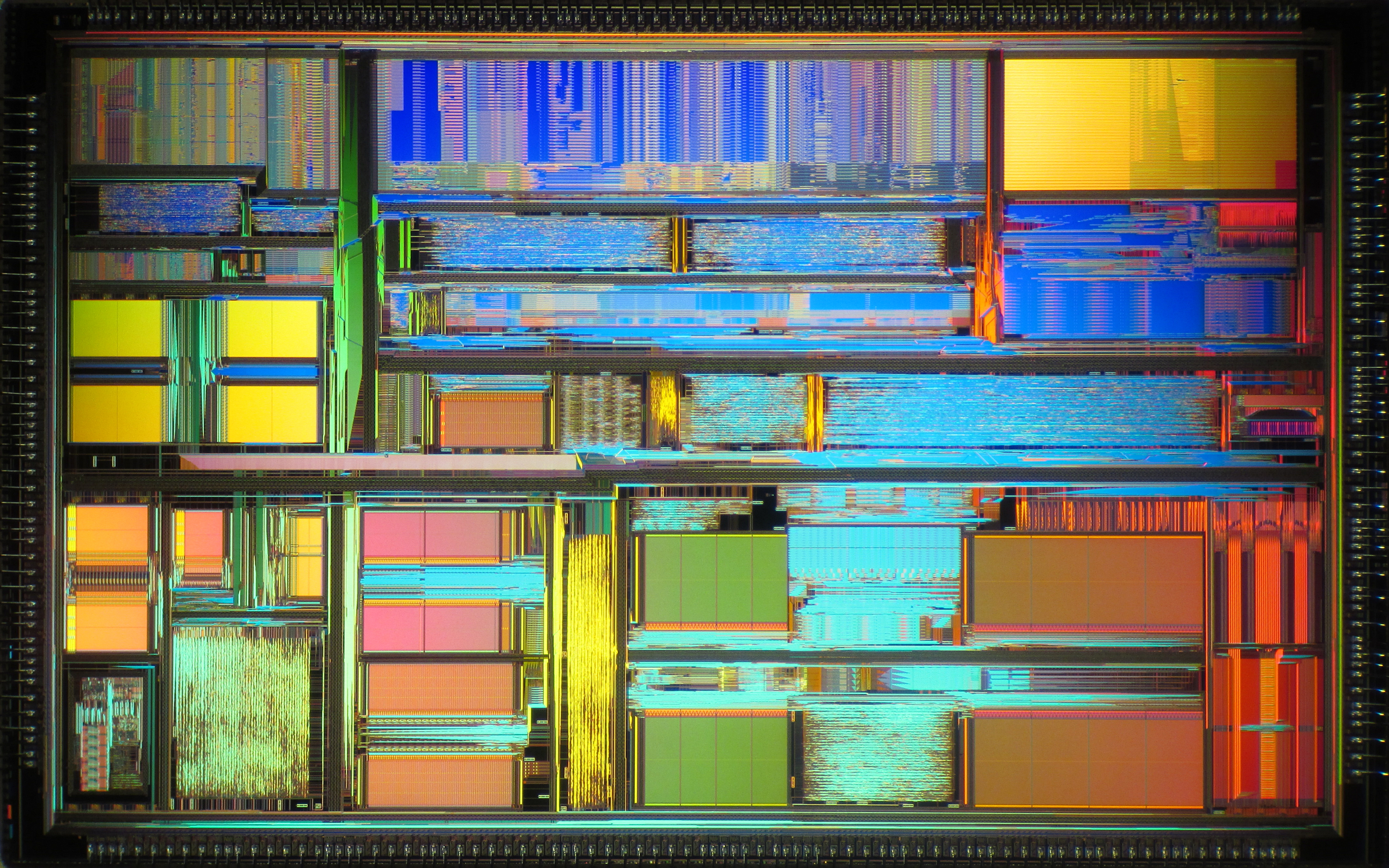 Die shot of AMD K5 PR75 microprocessor (AMD-K5-PR75ABR rev E).